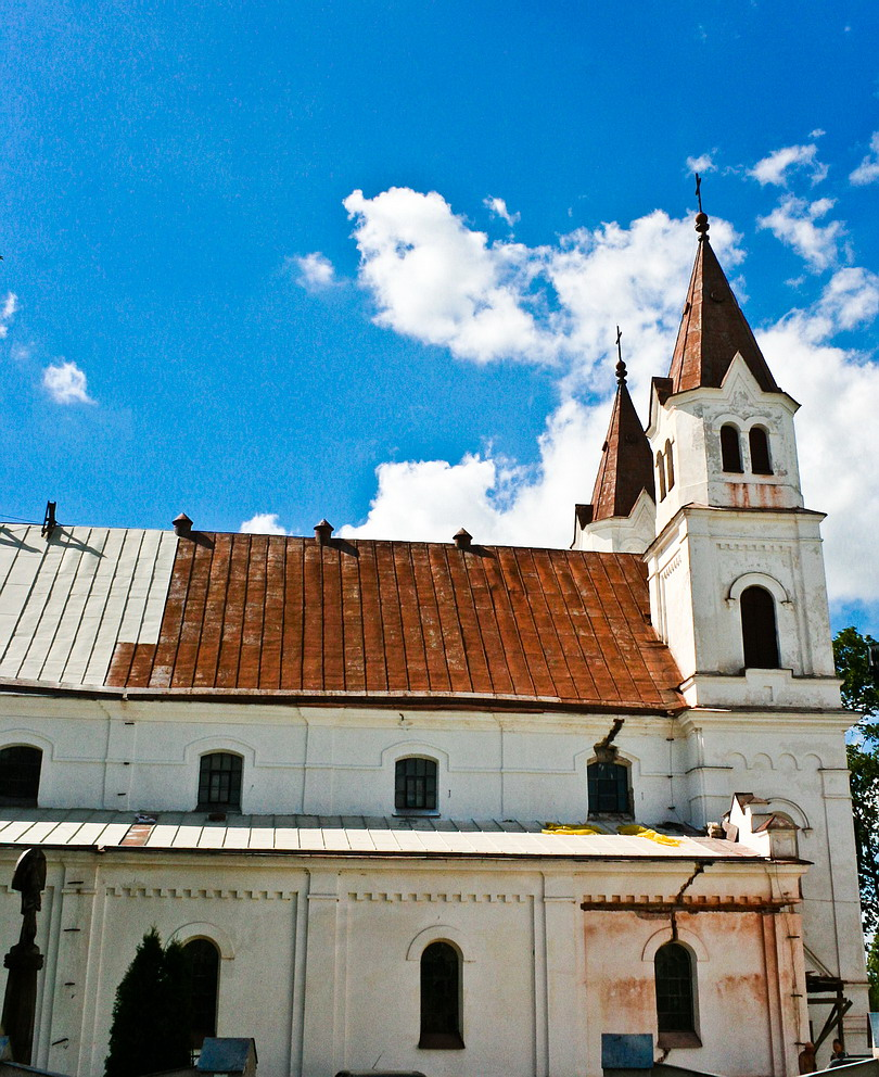 Church in Pasvalys, Lithuania